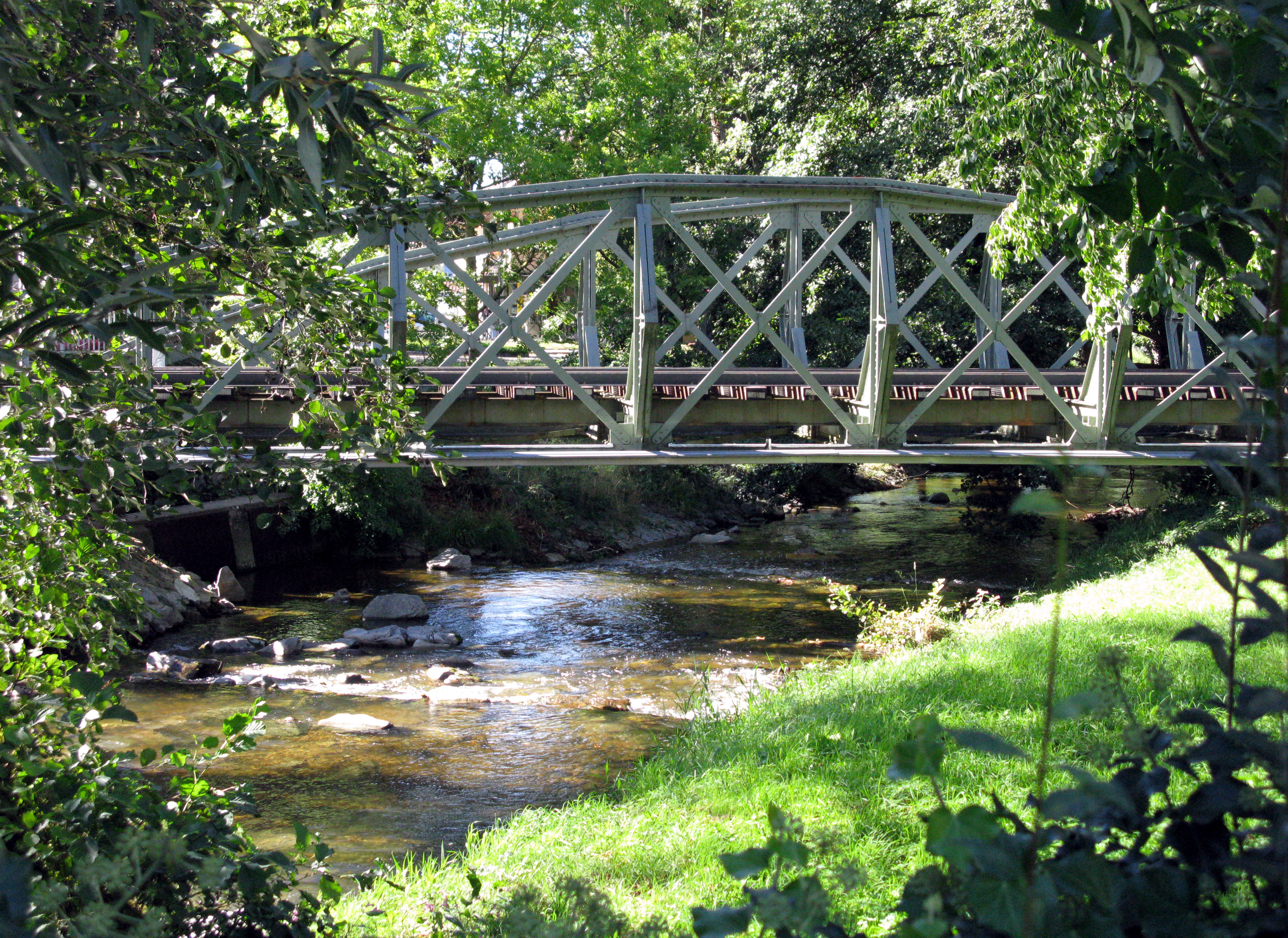 River Neumagen with bridge of the Münstertalbahn in Staufen